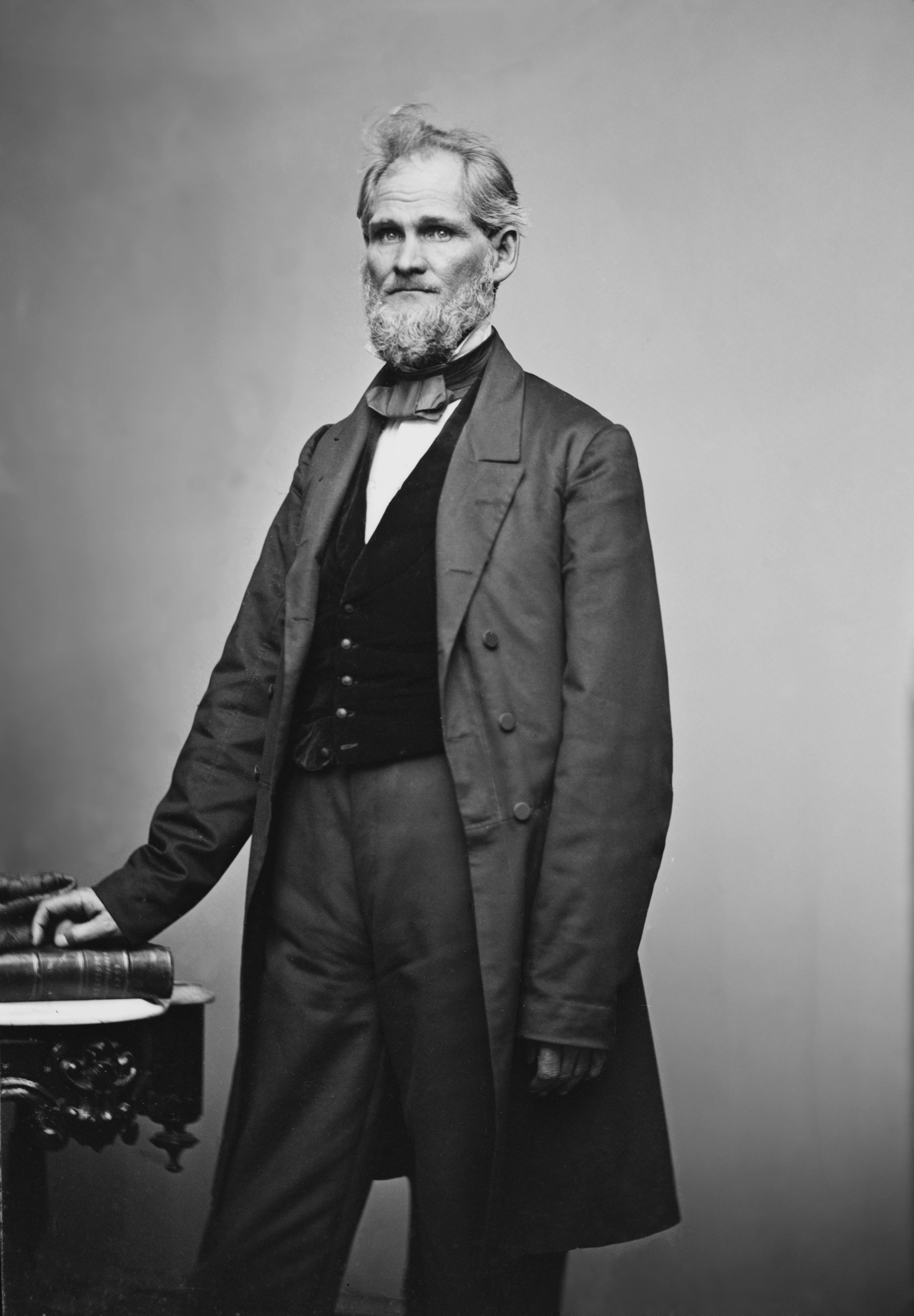 Photo of Henry Smith Lane, briefly Governor of Indiana before becoming United States Senator from Indiana during the Civil War. TITLE: Hon. Henry S. Lane of Ind. CALL NUMBER: LC-BH82- 5052 C [P&P] REPRODUCTION NUMBER: LC-DIG-cwpbh-02378 (digital file from original neg.) No known restrictions on publication. MEDIUM: 1 negative : glass, wet collodion. CREATED/PUBLISHED: [between 1855 and 1865] NOTES: Title from unverified information on negative sleeve. Annotation from negative, in pencil: H. S. Lane 2nd. Forms part of Brady-Handy Photograph Collection (Library of Congress). FORMAT: Portrait photographs 1850-1870. Glass negatives 1850-1870. REPOSITORY: Library of Congress Prints and Photographs Division Washington, D.C. 20540 USA DIGITAL ID: (digital file from original neg.) cwpbh 02378 [1] CARD #: brh2003002637/PP